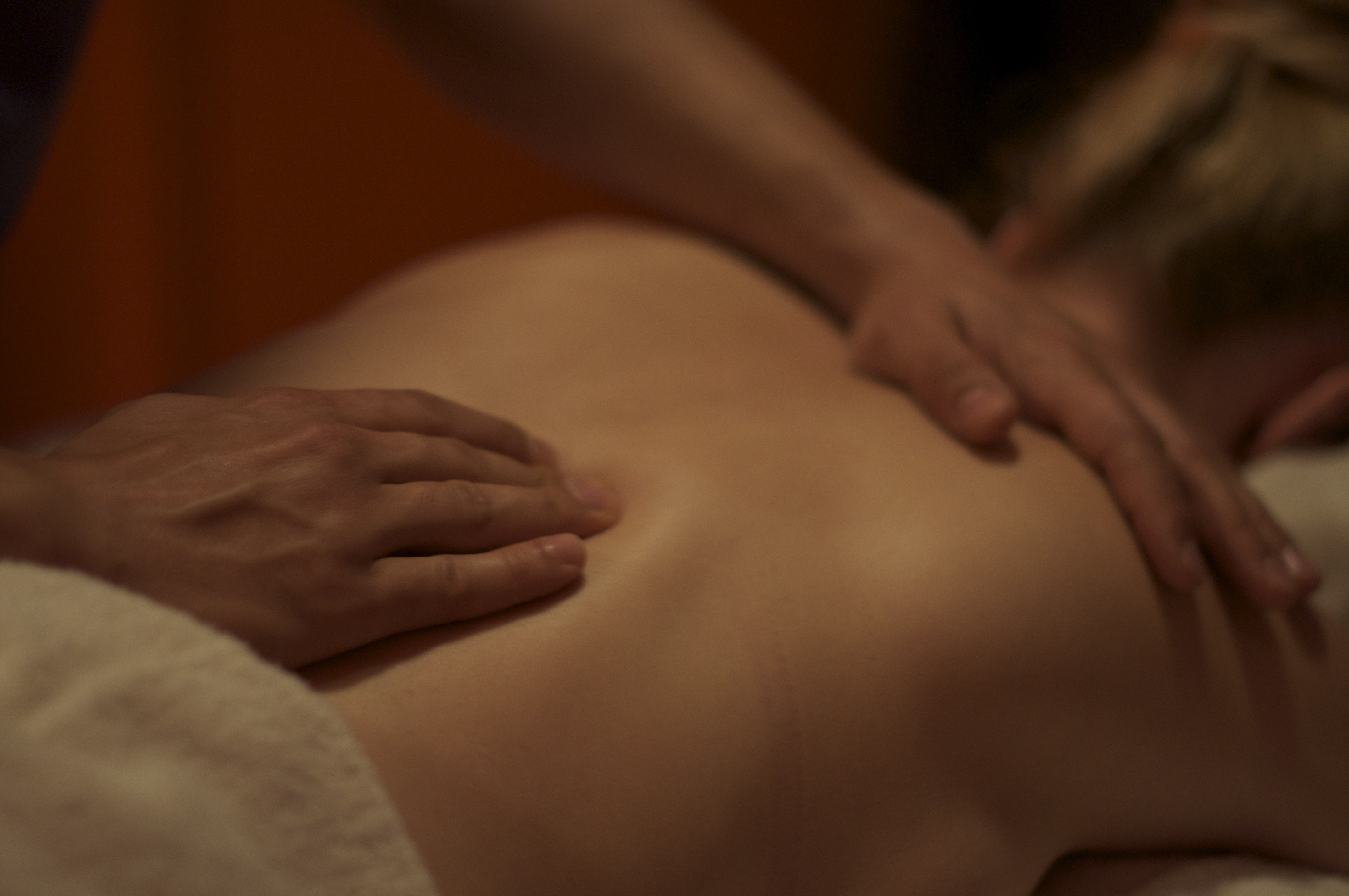 Violet Hill Commission for Jayfresh ( More photos from BenJam